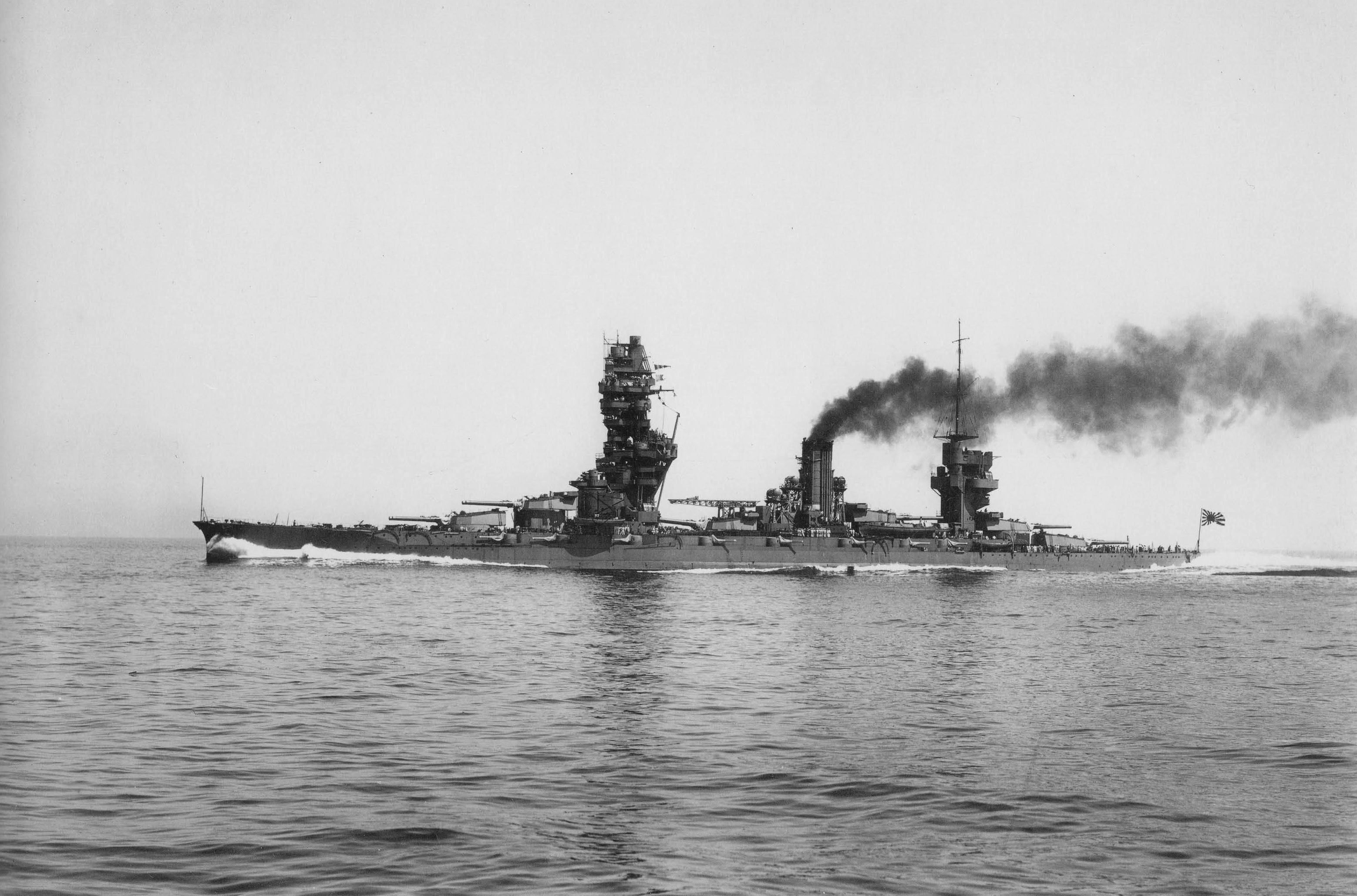 Imperial Japanese Navy battleship Fusō undergoing post-reconstruction trials.